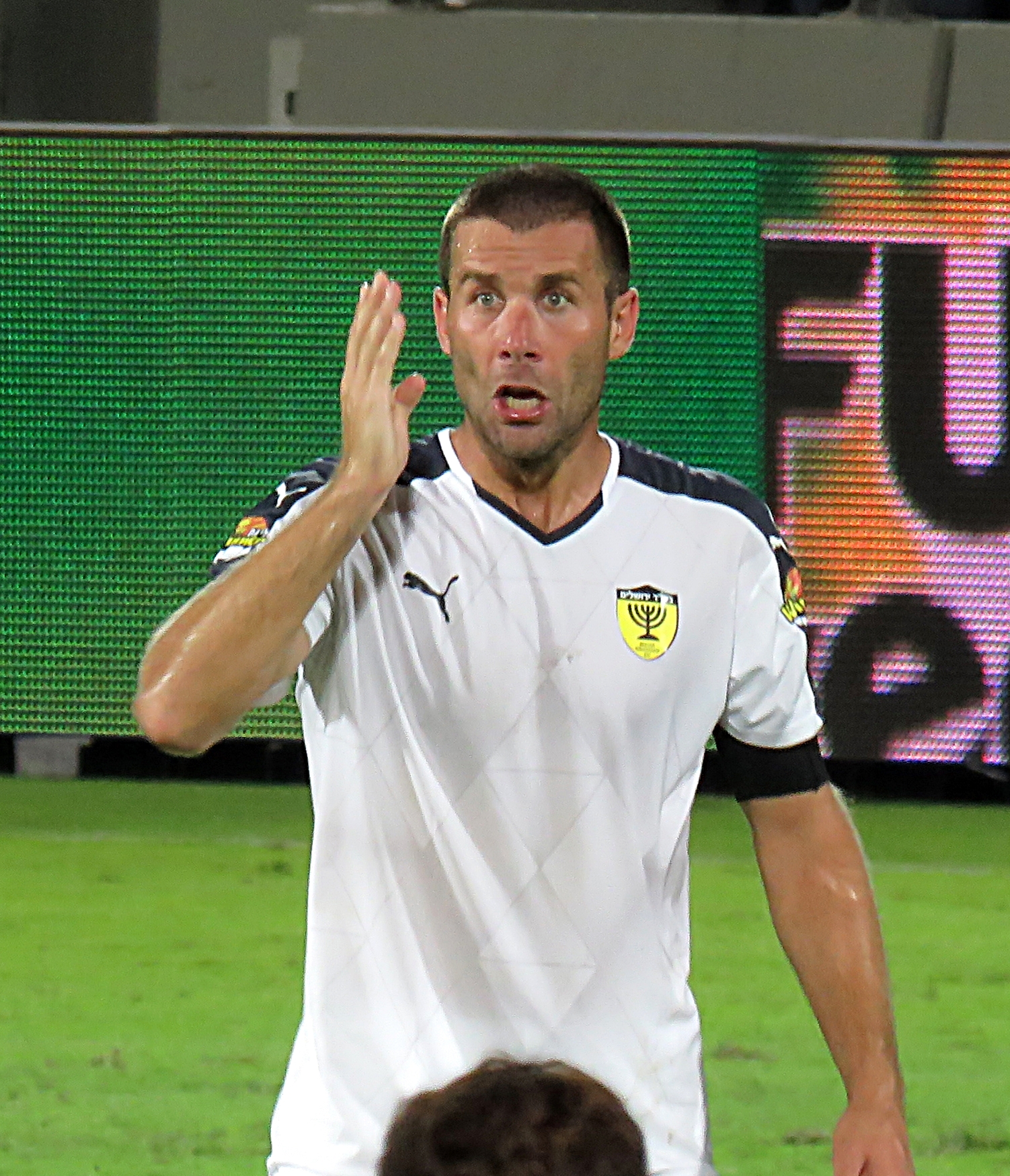 Bnei Yehuda Tel Aviv vs. Beitar Jerusalem - 19 September, 2015